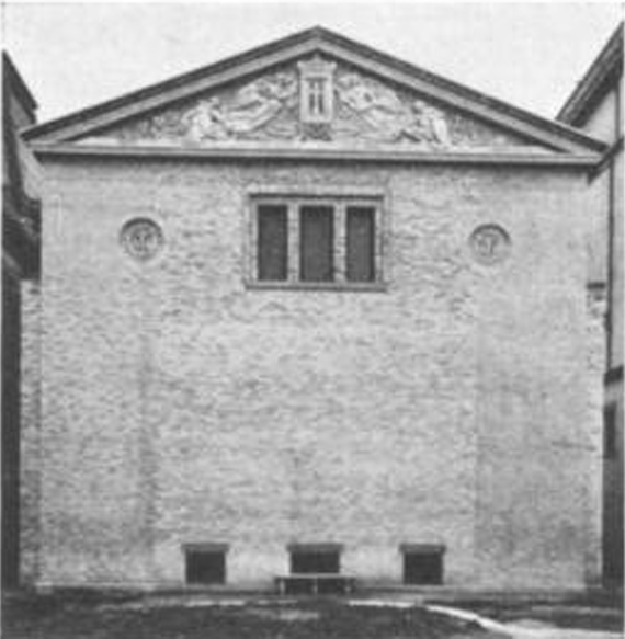 Pediment from the Madison Square Presbyterian Church (1910), as installed on the exterior of the Metropolitan Museum of Art Library.